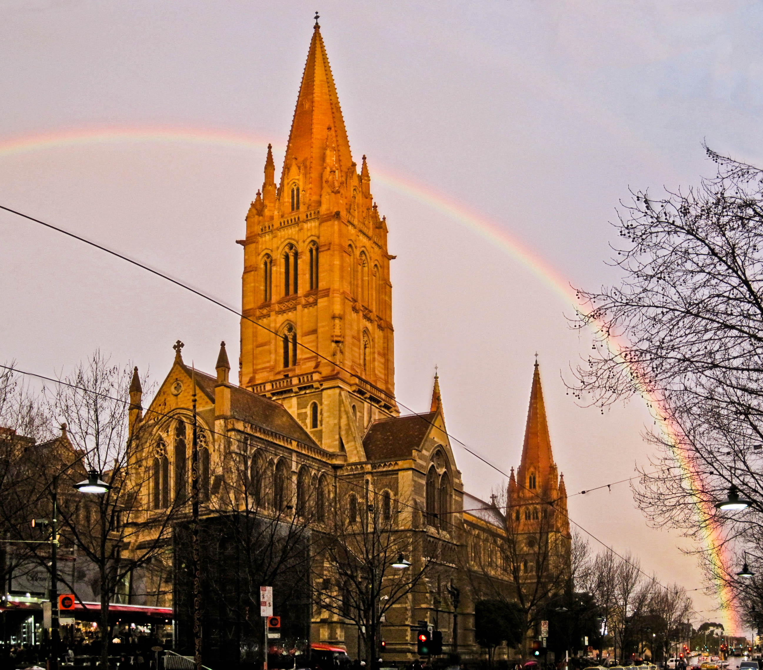 St Paul's Cathedral in Melbourne's city centre